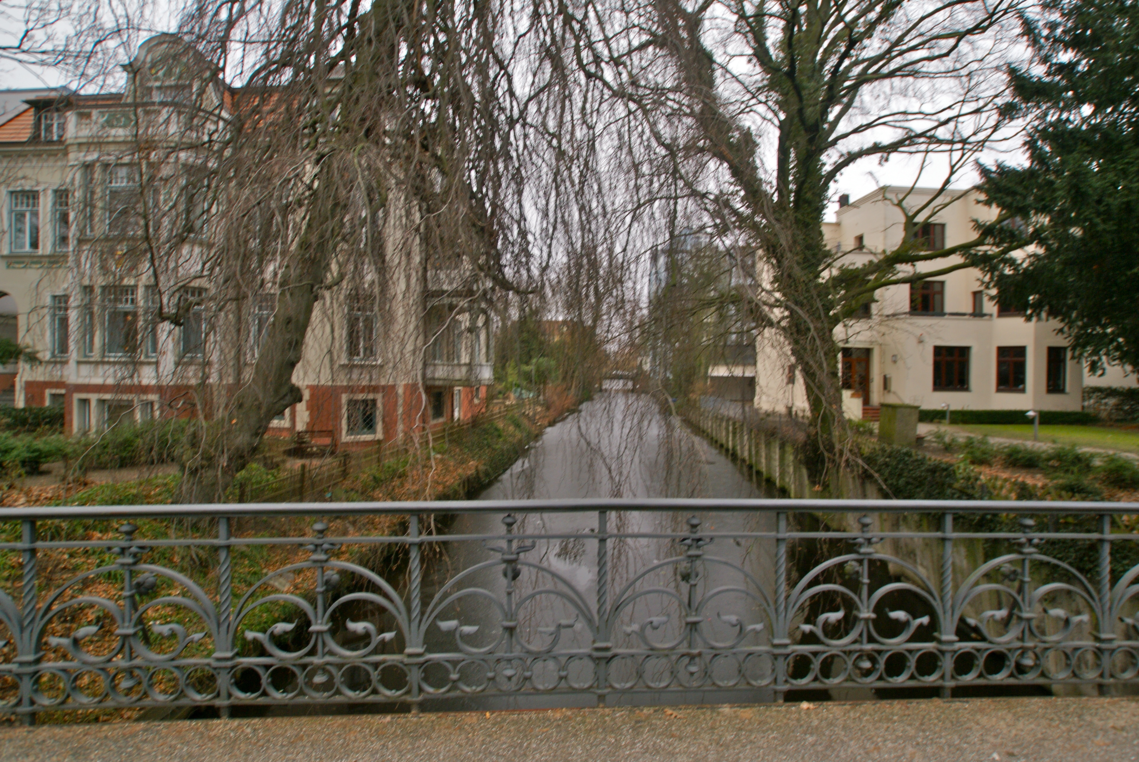 Hamburg (Uhlenhorst), Germany: The Uhlenhorster Kanal